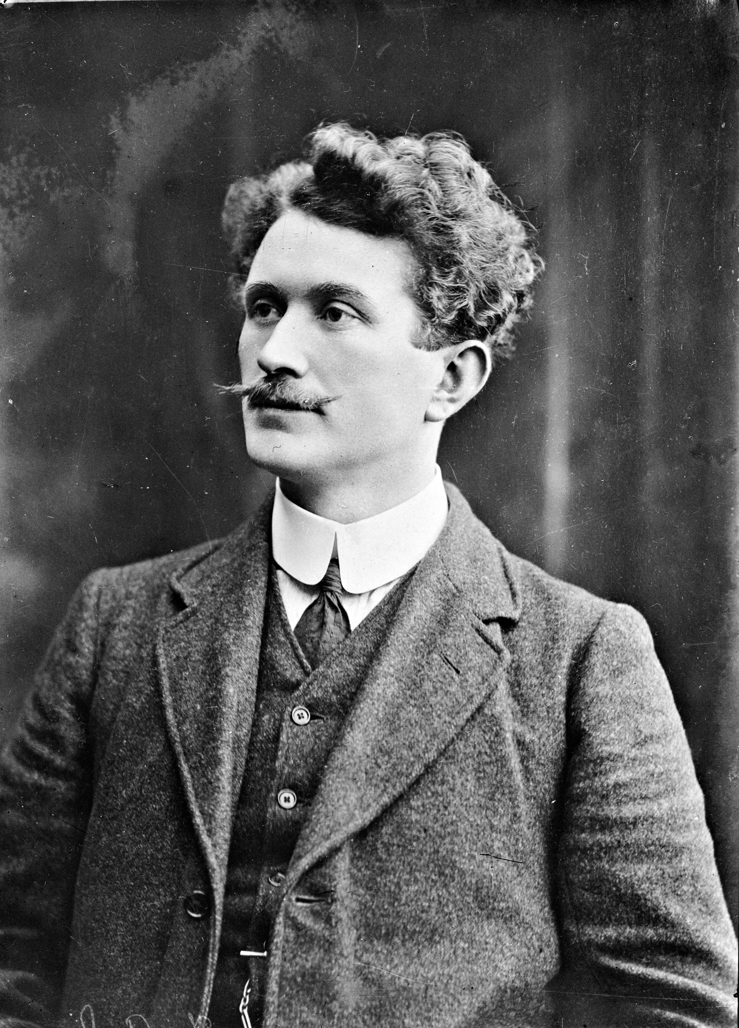 A fine Keogh portrait of the man who was probably, militarily at least, the most successful and least celebrated 1916 leader! One thing we can be sure of is that the outer end of the date range on this will be changed! With thanks to today's contributors, it seems that this portrait of Thomas Ashe (dating to c.1914-1917 and part of a series published by Keogh brothers about the 1916 leadership) was widely used. There are examples of buttons and memorial plaques based upon it in the comment thread. The image also appears on the entry for Ashe (and his burial) at the Glasnevin Trust website. This entry describes that he died in 1917, from pnumonia and other complications (arising from his treatment, including forible feeding, while imprisoned at Mountjoy).... Photographer: Brendan Keogh Collection: Keogh Photographic Collection Date: Catalogue range c.1914-1923. But certainly before 1917 (date of death). NLI Ref: KE 2 You can also view this image, and many thousands of others, on the NLI’s catalogue at